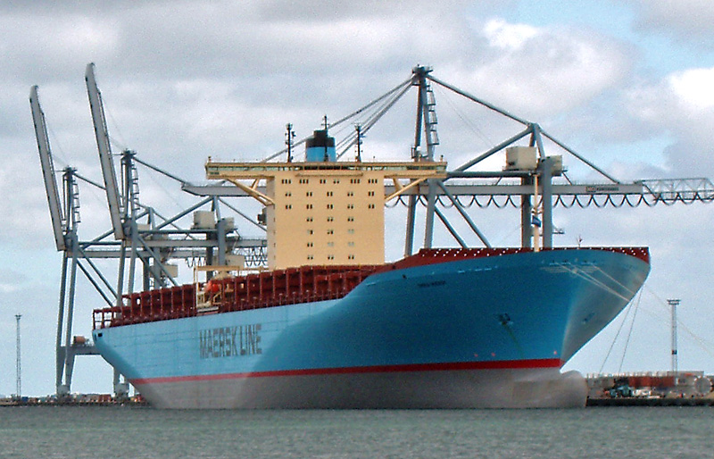 Emma Maersk, the world's currently largest container ship in Aarhus 5. september 2006 IMO Number: 9321483 MMSI Number: 220417000 Callsign: OYGR2 Length: 398 m Beam: 56 m Information about Emma Mærsk may be found at IMO 9321483.A ship can change name and flag state through time, but the IMO number remains the same through the hull's entire lifetime. As a result, it can be useful to identify a ship by using the IMO number.